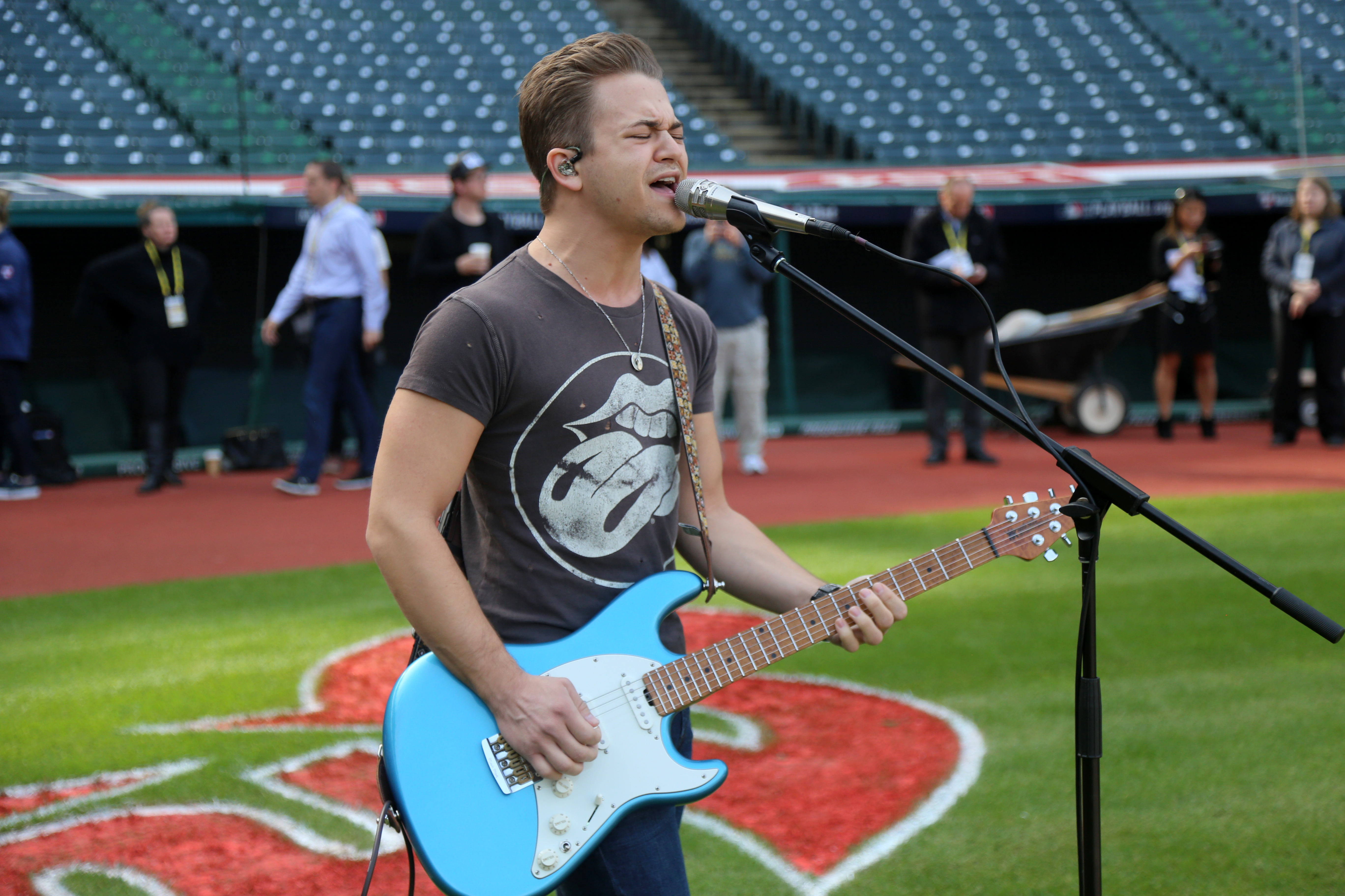 Five-time Grammy nominee Hunter Hayes performs his national anthem soundcheck, hours before Game 6 of the World Series.